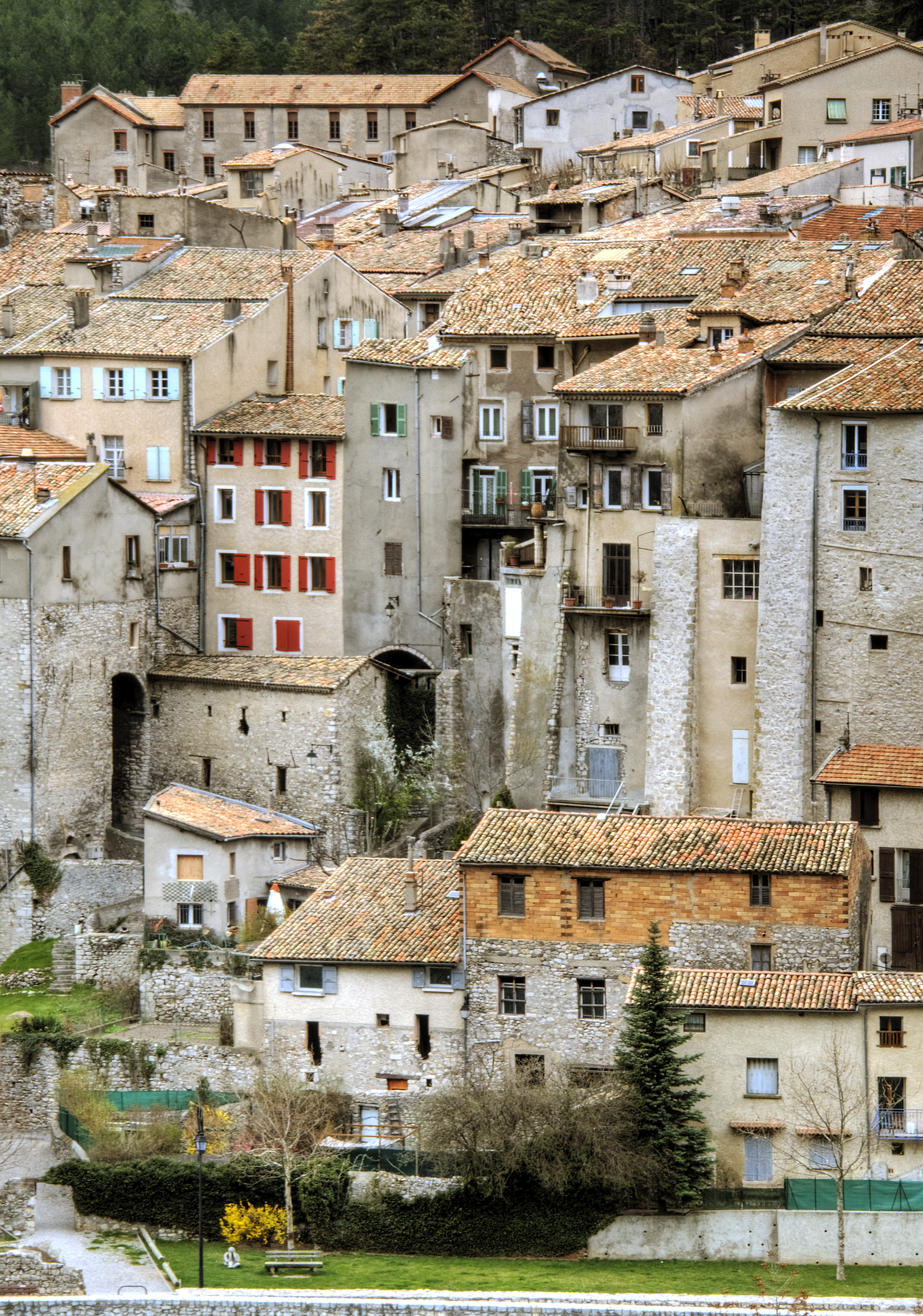 Sisteron is a commune in southeastern France, in the Alpes-de-Haute-Provence département in the Provence-Alpes-Côte d'Azur region. The inhabitants are called the 'Sisteronnais'. Sisteron is situated on the banks of the River Durance just after the confluences of the rivers Buëch and Sasse. It is sometimes called the 'Porte de la Provence' (The Gateway to Provence) because it is in a narrow gap between two long mountain ridges (Baume/Gache and the Lure mountain/Moulard). It is 135 km from Marseille, also 135 km from Grenoble and 180 km from Nice.